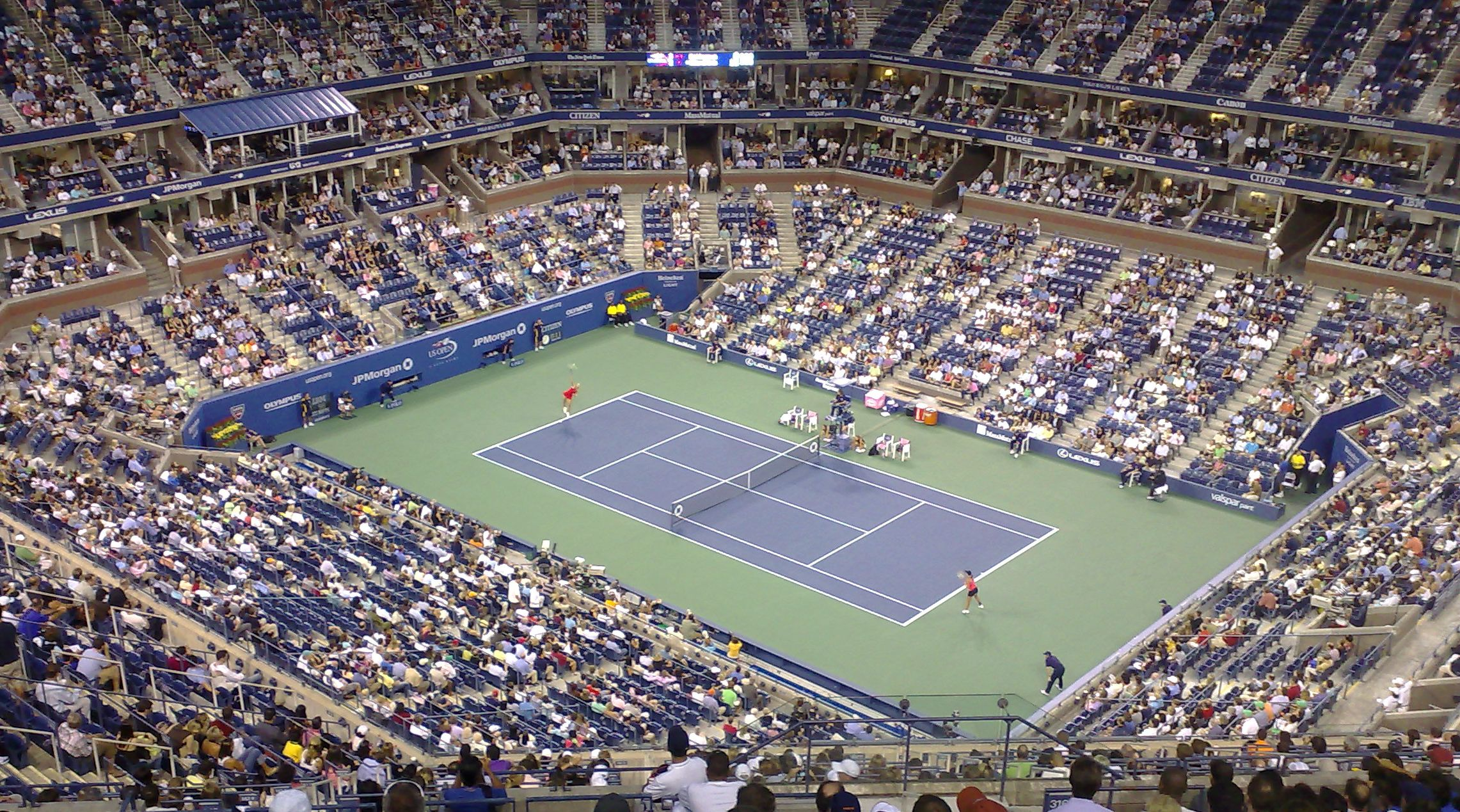 The US Open